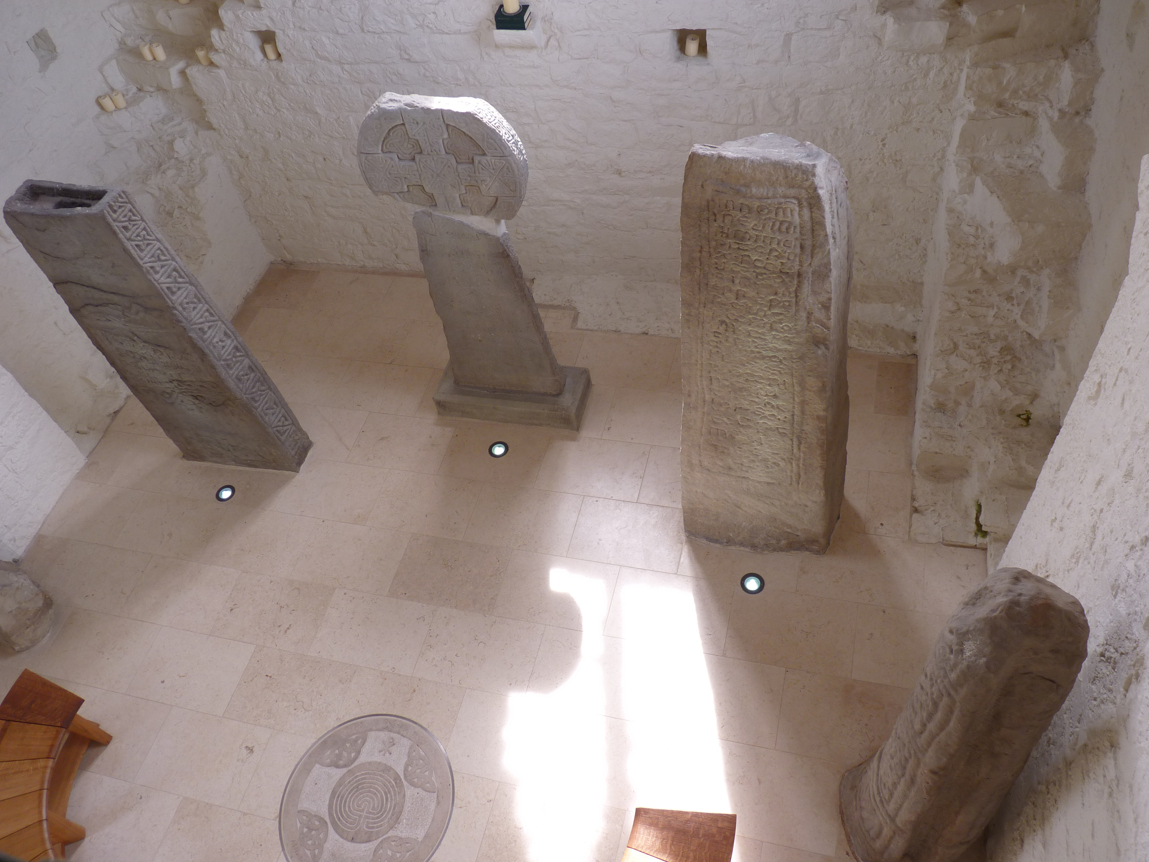 Three Celtic Crosses in the re-furbished Galilee Chapel at the west end of St Illtyd's Church, Llantwit Major, Vale of Glamorgan, Wales. Left: Samson's Cross; Middle: Houelt's Cross; Right: Samson's Pillar. The Norman church is on a site first established in 395 AD, and the western end was a roofless ruin for 400 years.